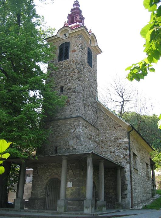 St. Bartholomew church (first mentioned in 13th century) Ljubljana aka. Stara cerkev (old church), aka. St. Jernej photo:Ziga 13:08, 7 May 2006 (UTC)